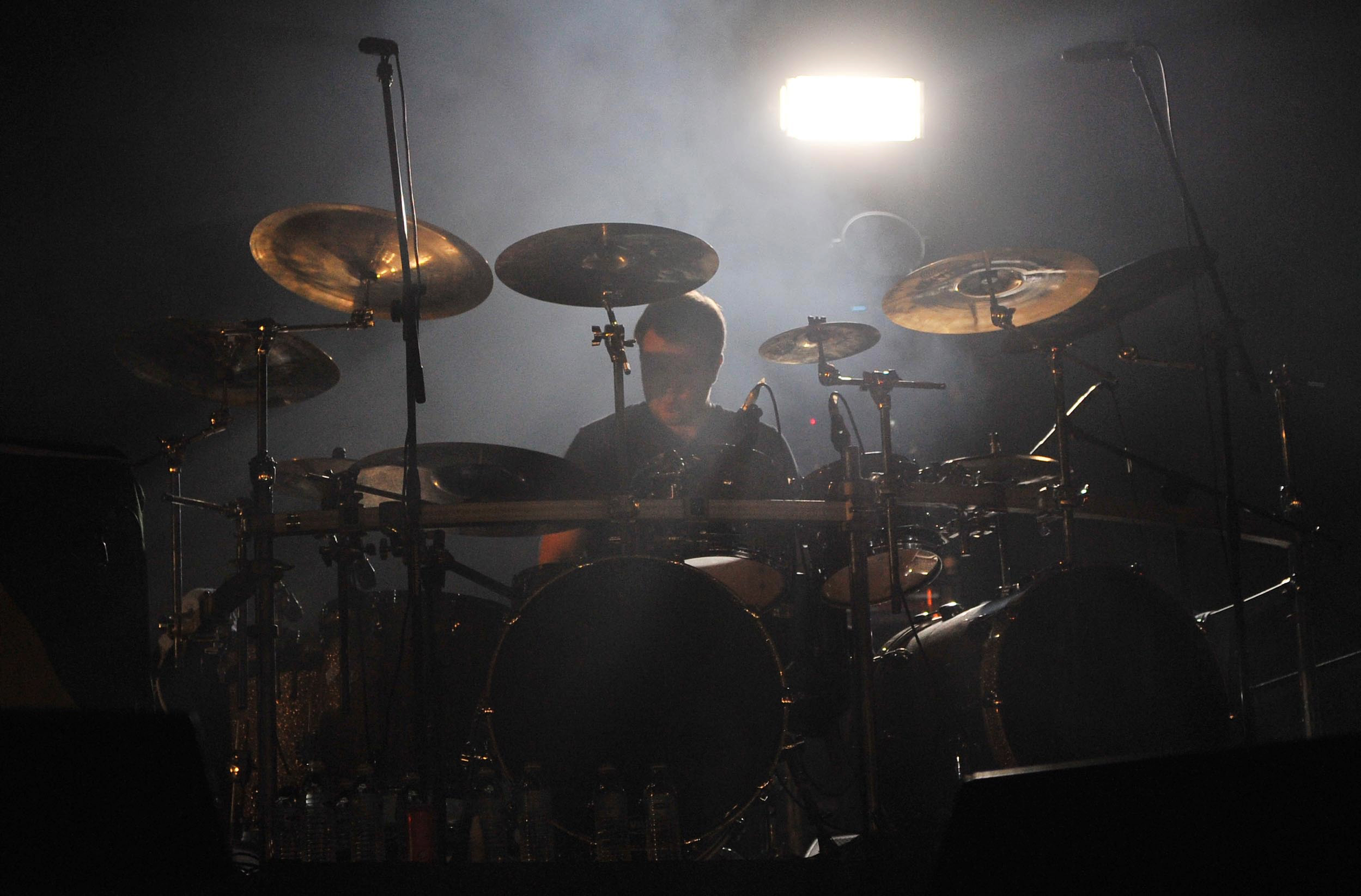 Kuala Lumpur, 21/10/2012. Soulfly during Rockaway Festival 2012 at Sepang International Circuit..(reporter jenilyn) Pic Firdaus Latif.